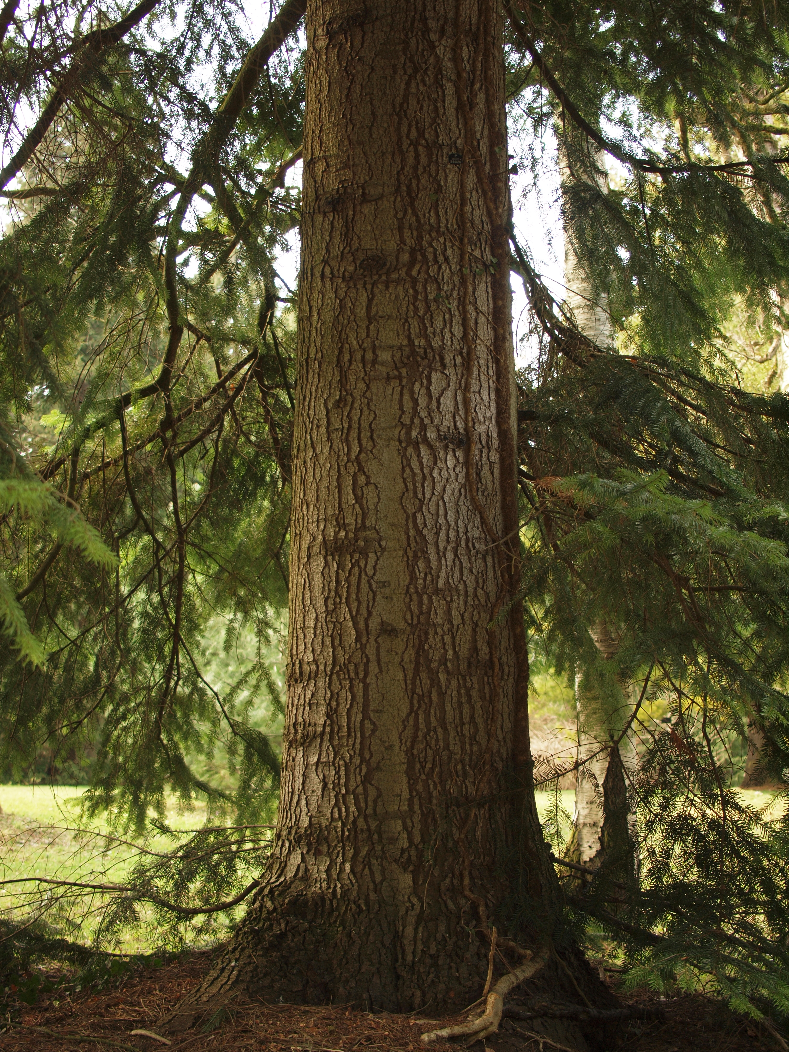 Abies nordmanniana bark and trunk